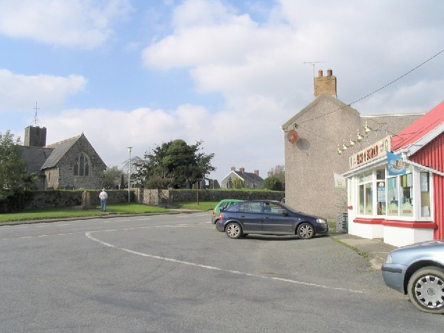 Maenclochog. Visible are a distinctive red shop and the church in the village centre.